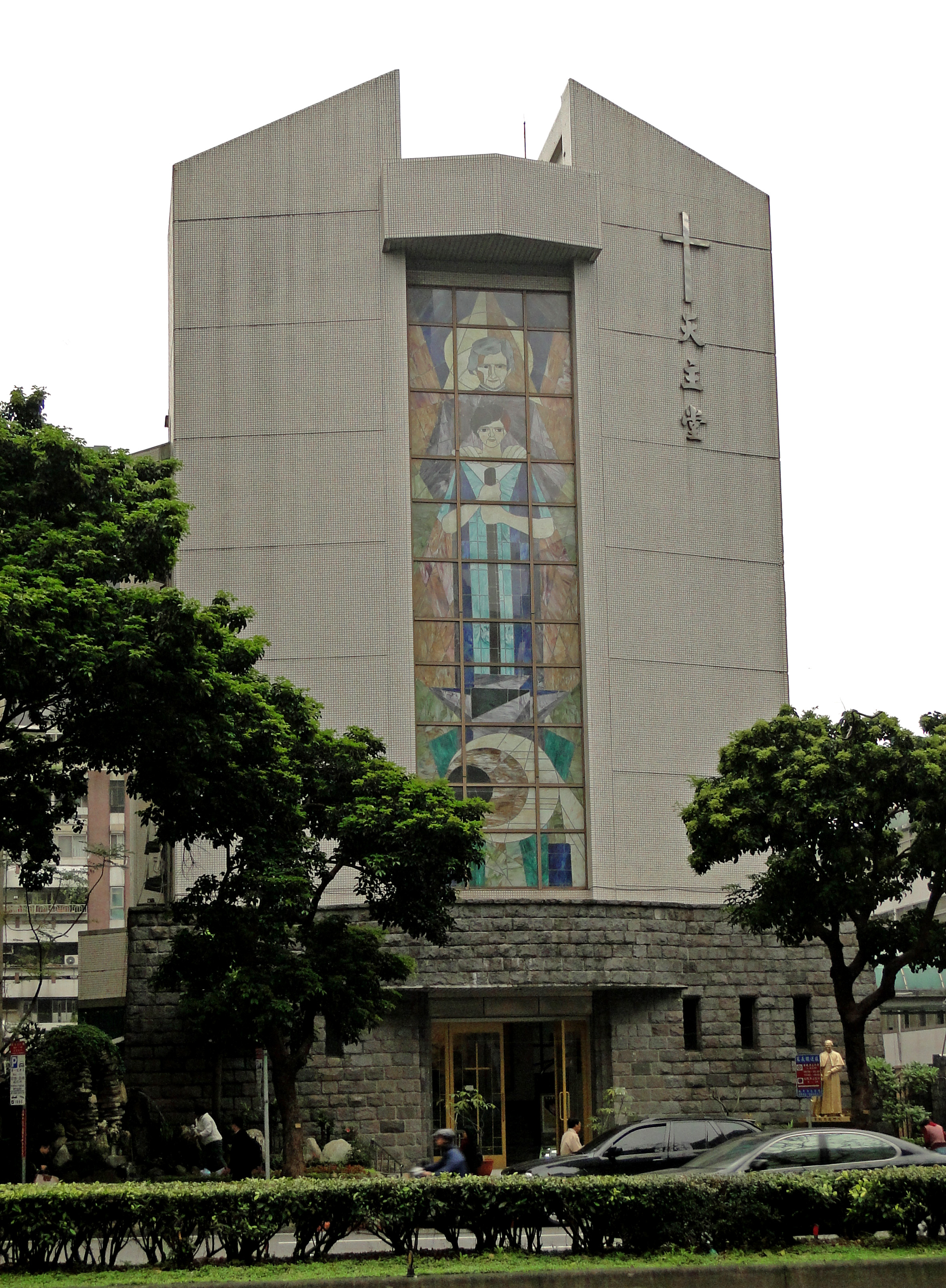 St. John Bosco Parish Church, Taipei, Taiwan